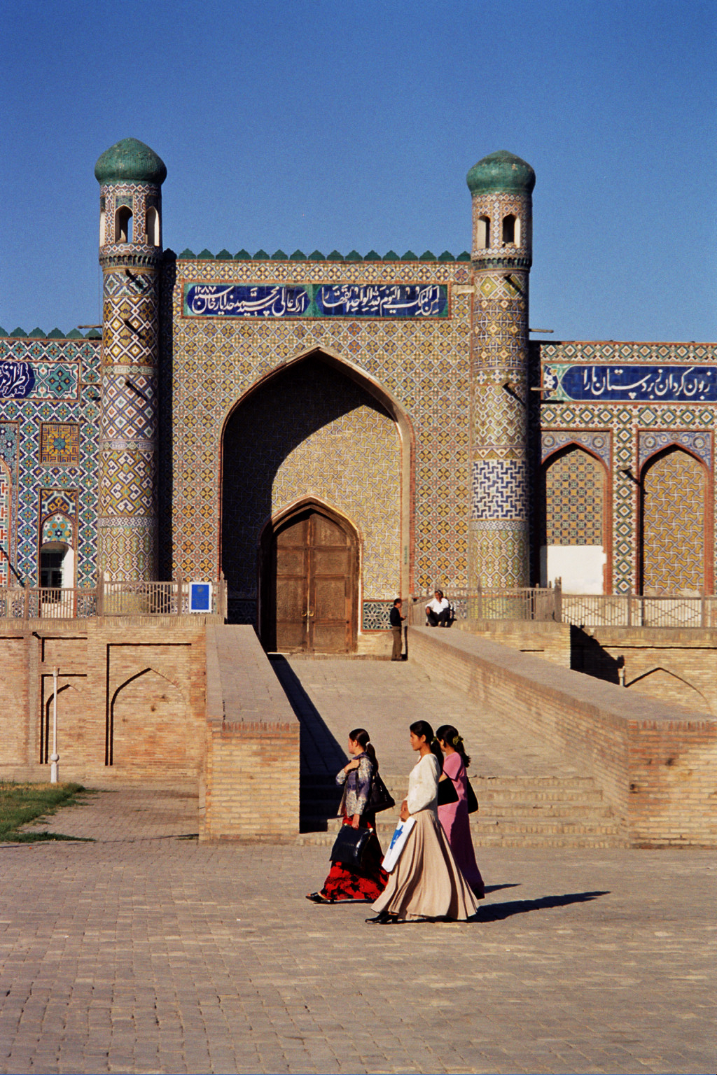 entryway with local women walking by